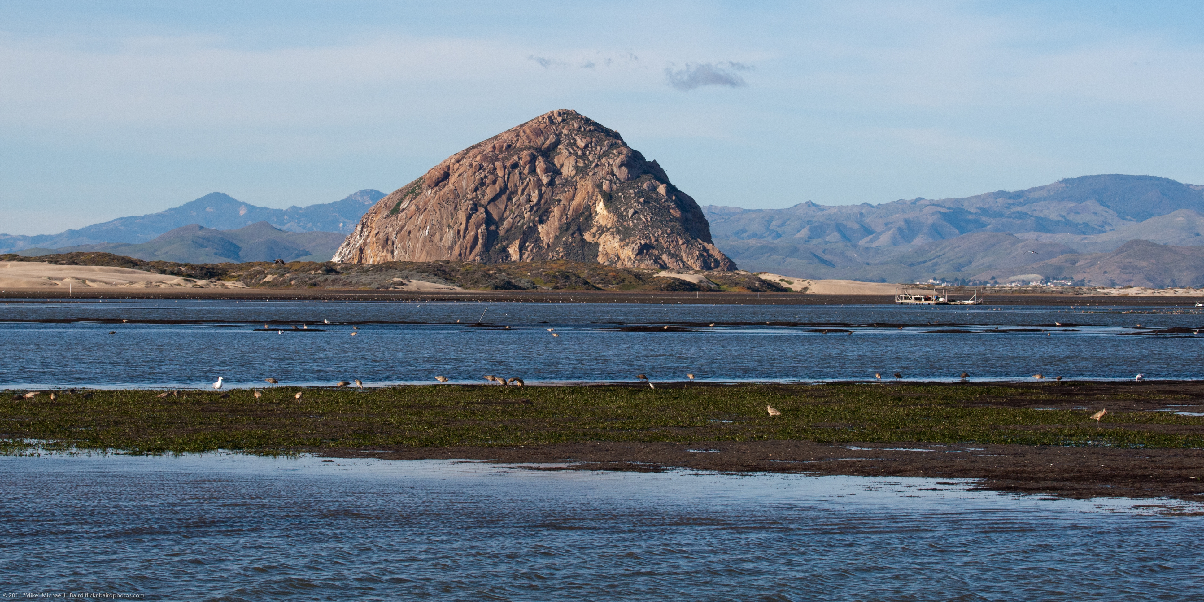 Morro Rock, Morro Bay, CA, with Sandspit and Grassy Island in foreground at ultra low tide, Morro Bay, CA 14 January 2011 taken during the 2011 Morro Bay Winter Bird Festival’s Shooting From the Water tour led by me (Mike Baird). Photo © 2011 “Mike” Michael L. Baird, mike {at] mikebaird d o t com, , shooting a Canon EOS 1D Mark III 10.1MP Digital SLR Camera, Canon EF 100-400mm f4.5-5.6L IS USM Telephoto Zoom Lens, with circular polarizer, handheld, RAW. To use this photo, see access, attribution, and commenting recommendations at